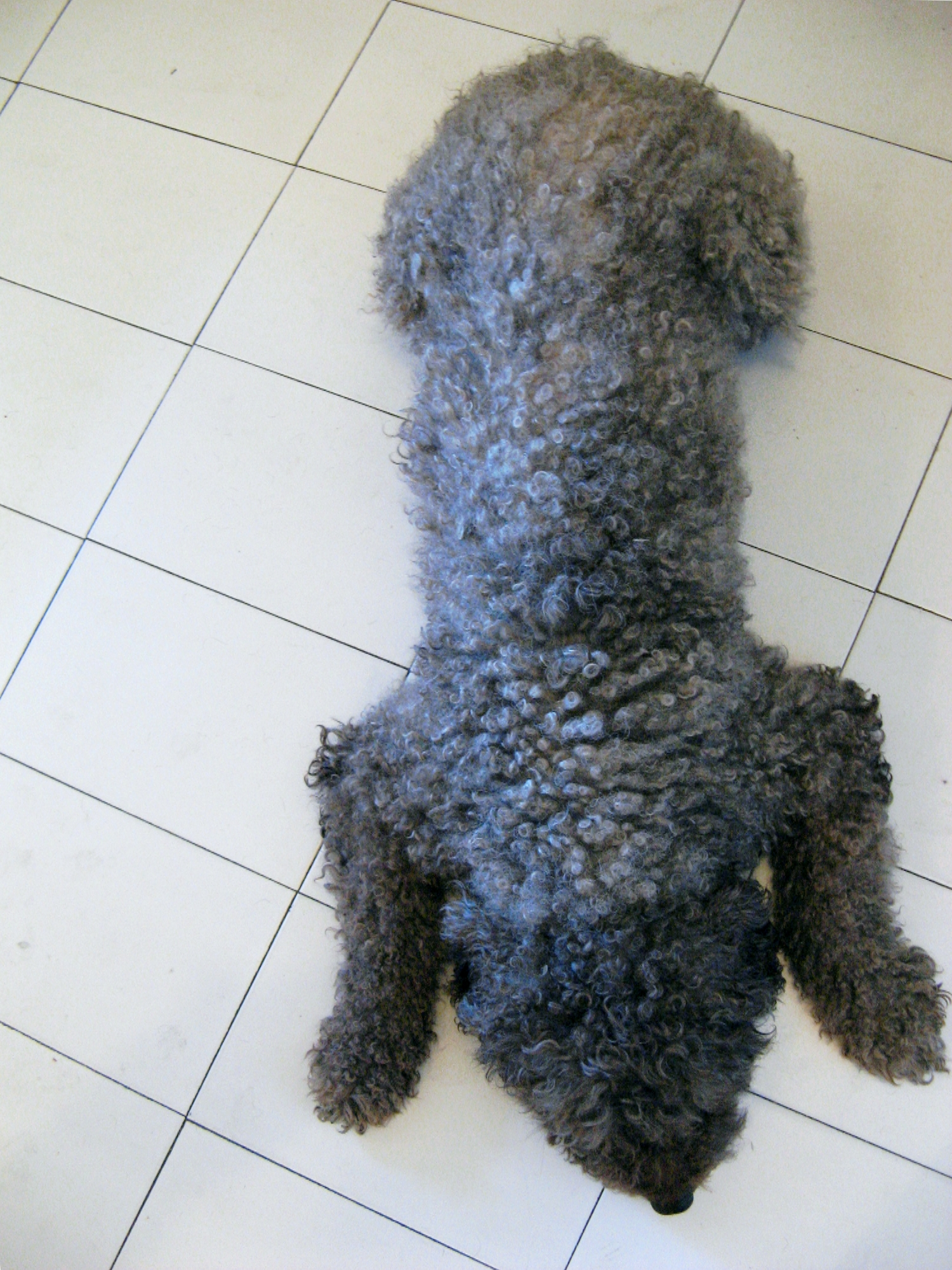 Spanish Water Dog (Perro de aguas español)